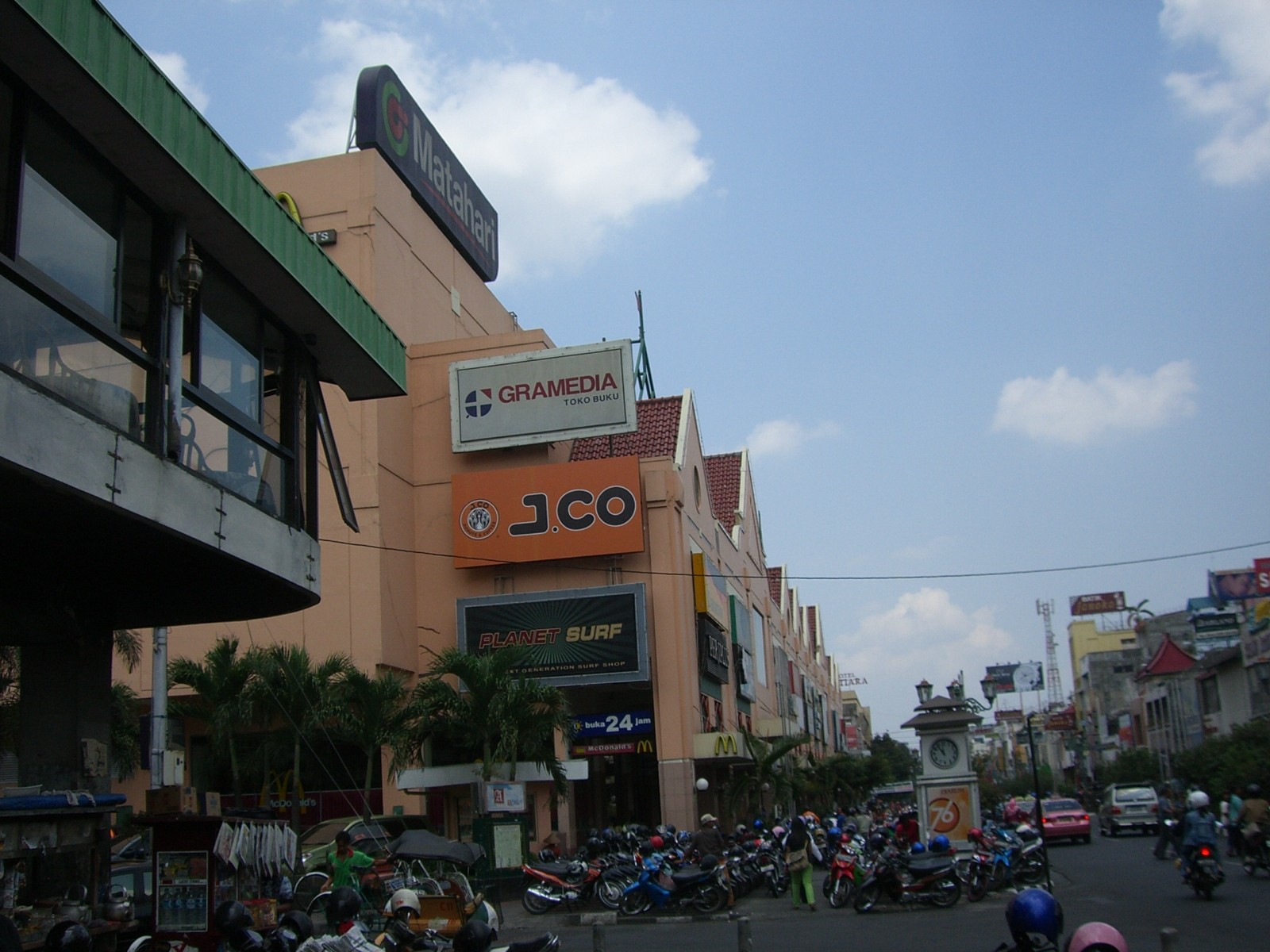 Malioboro Scenery